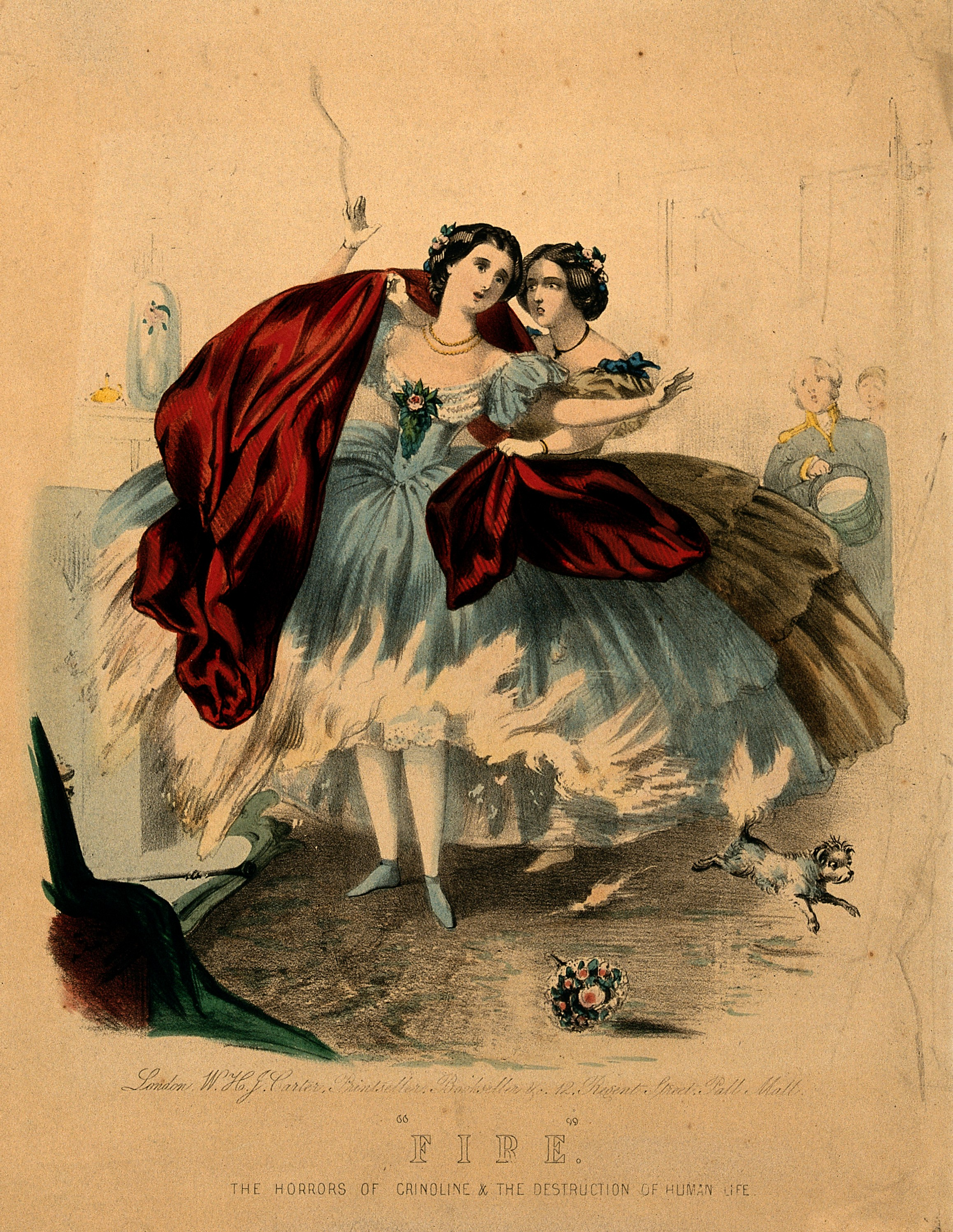 Women wearing crinolines which are set on fire by flames from a domestic fireplace. Coloured lithograph, ca. 1860. Lettering: "Fire". The horrors of crinoline and the destruction of human life. Lettering note: On the verso, a lithographed list of 54 prints, mostly on the subject of crinolines, available from the same publisher. One gives a terminus ante quem non for the present print: it showed the winner of the 1859 Derby. Iconographic Collections Keywords: Woman; Fire; Horror; Fashion; Accident; Dress